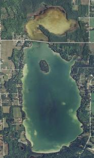 Aerial image of Kangaroo Lake in Door County, Wisconsin.